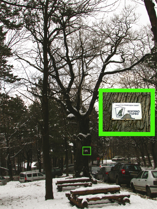 Вековно дърво